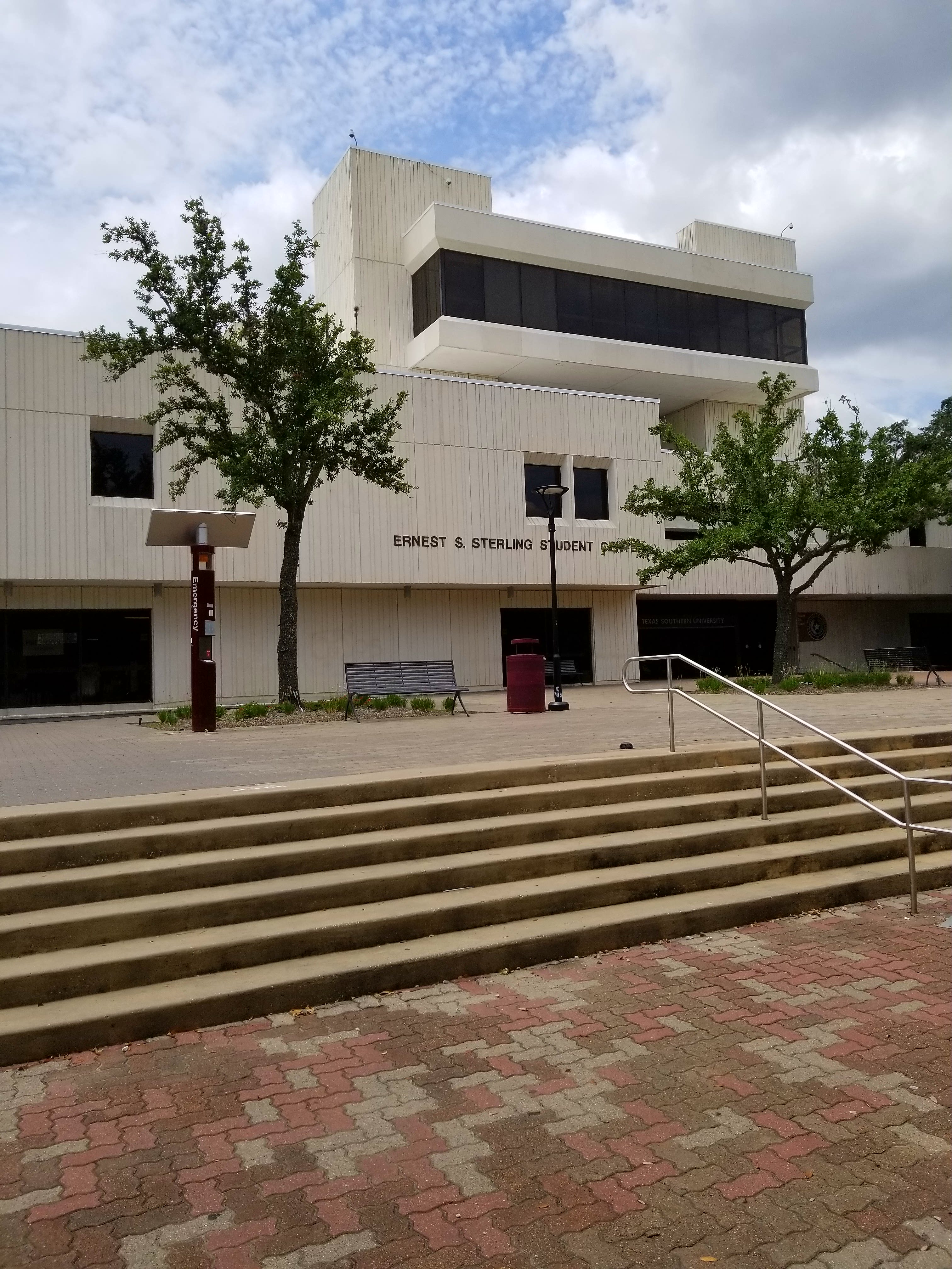 Sterling Student Center